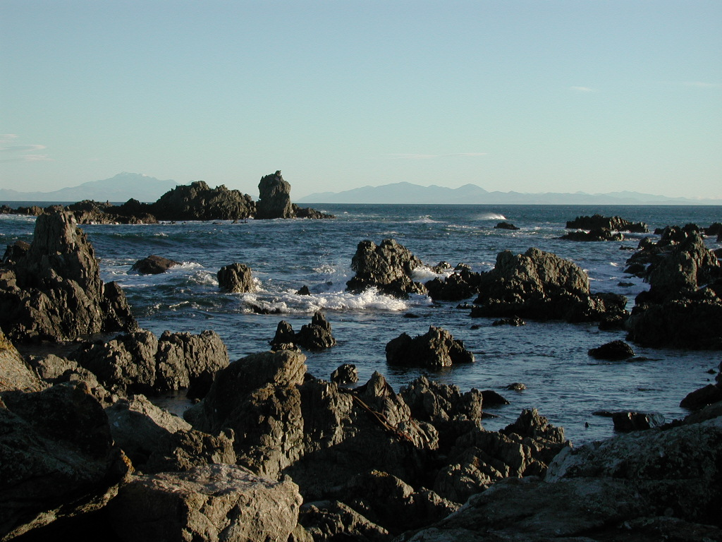 Rocky shore at Sinclair Head, looking across Cook Strait towards the South Island.